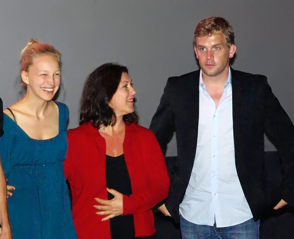 German Actors Petra Schmidt-Schaller, Eva Mattes and Sebastian Bezzel